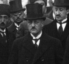 Riza Nur, Turkish politician, 1920s. Image is in the PD in Turkey.